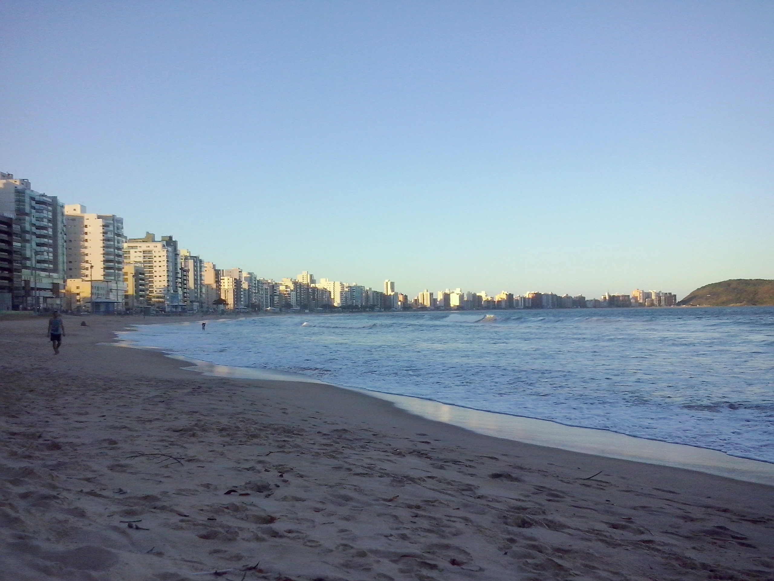 View of the Morro Beach, in Guarapari, Espírito Santo, Brazil.